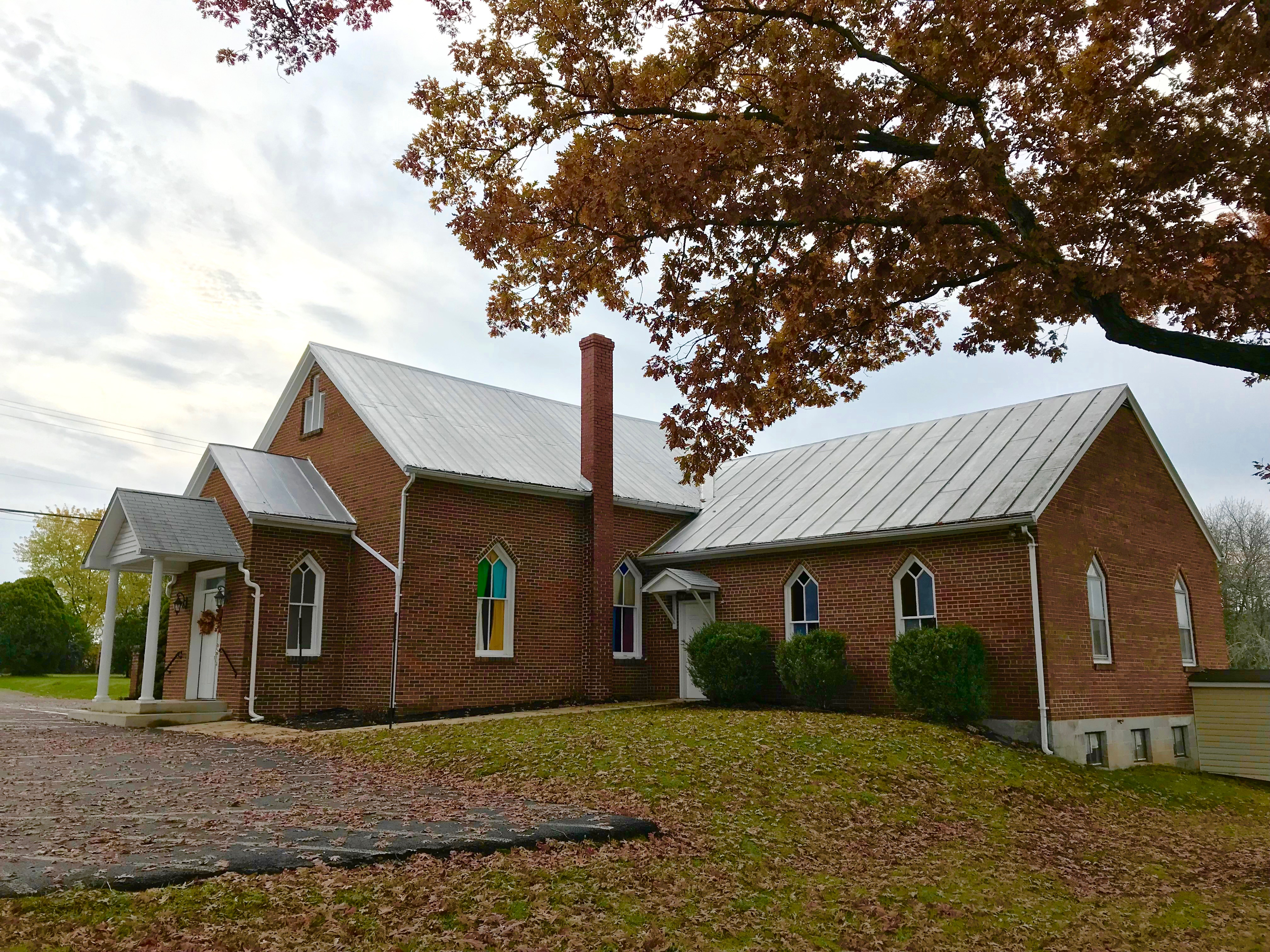 New Hope Baptist Church (formerly known as Redland Church or Redland United Methodist Church) is a brick church building along Redland Road (County Route 701) in Whitacre, Virginia.